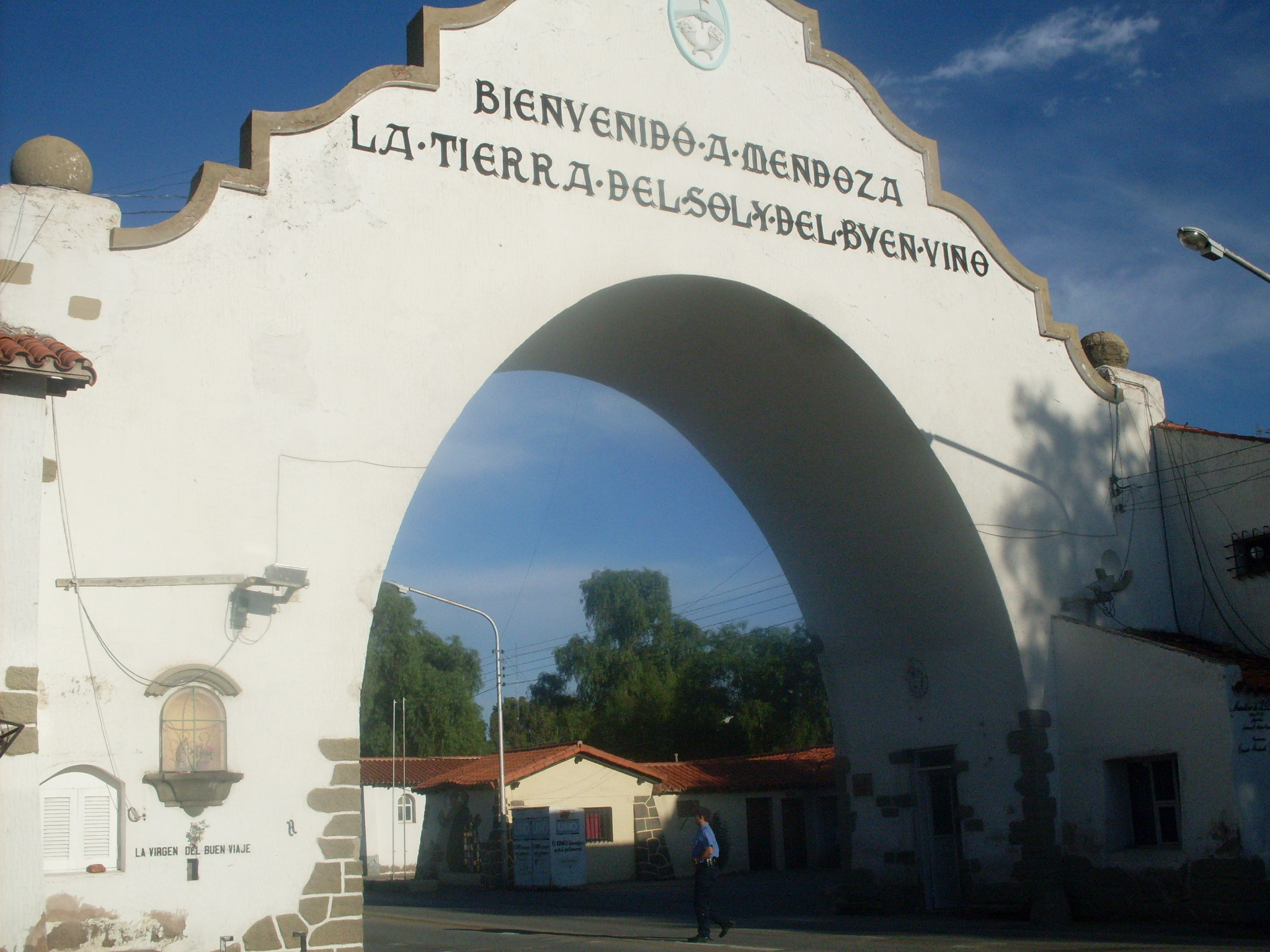 Ingreso a la provincia de Mendoza por RN 7. Argentina.